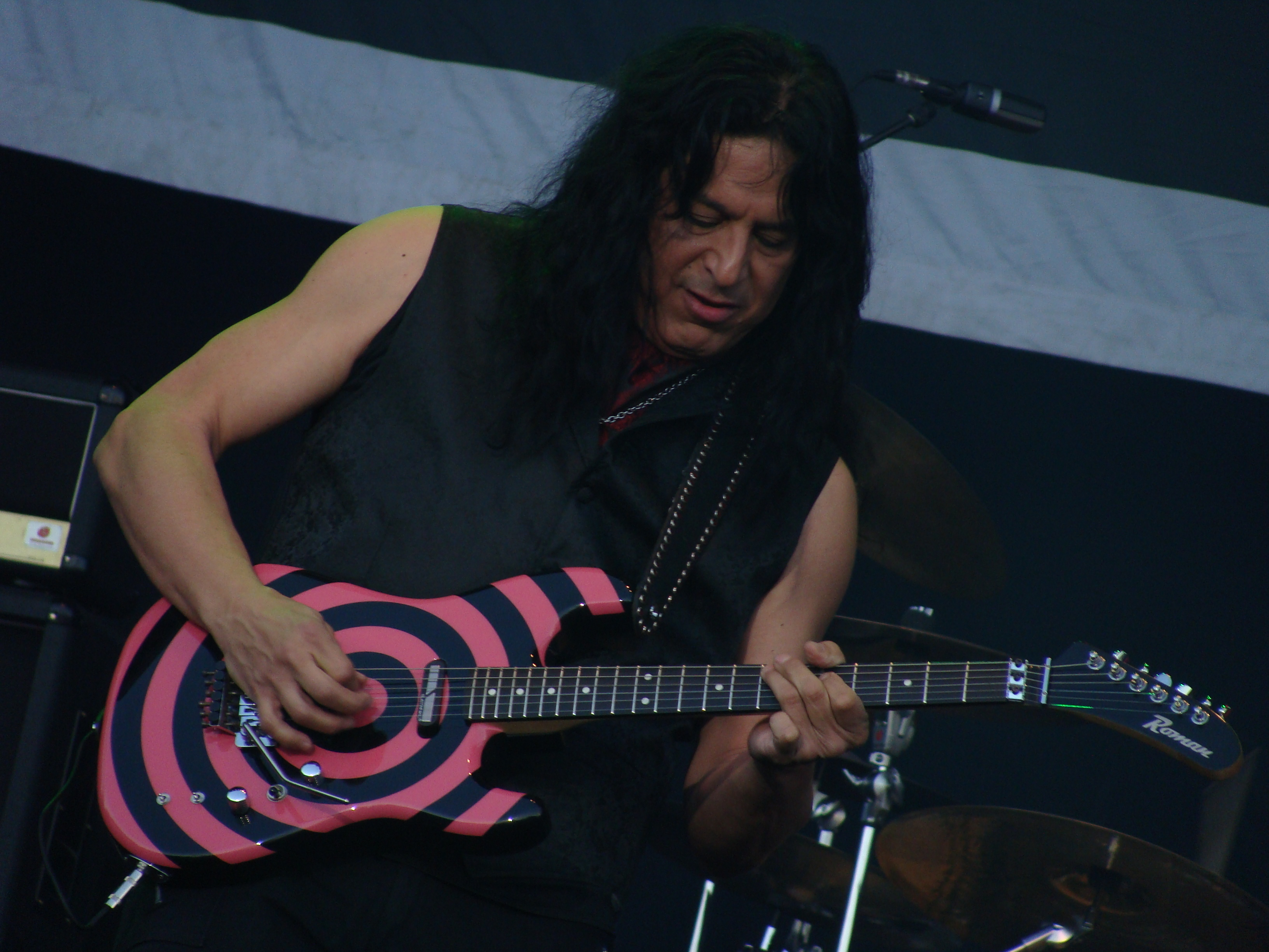 Eddie Ojeda, guitarrist of Twisted Sister, performing at Azkena Rock festival.